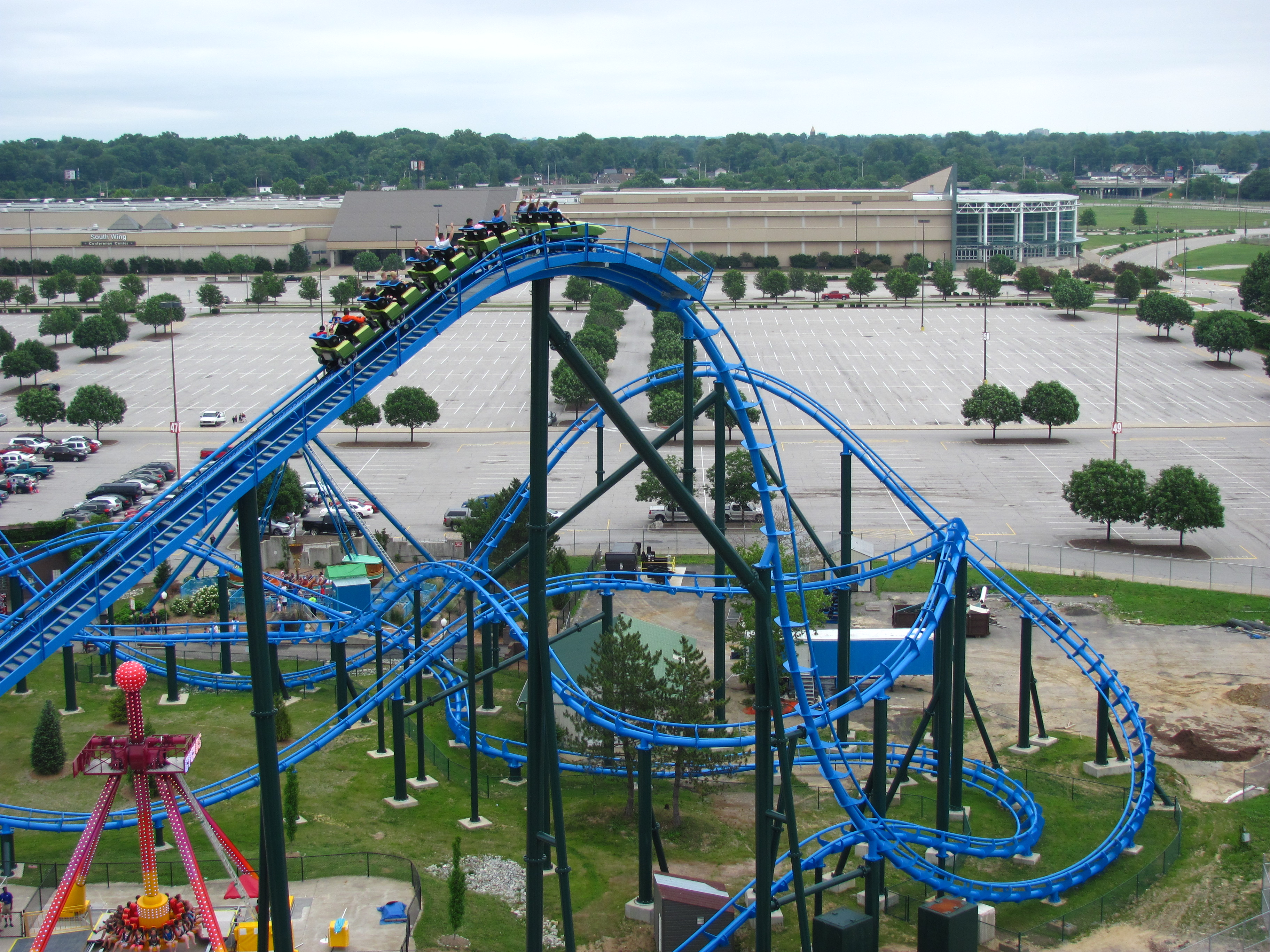 A photo of Lightning Run at Kentucky Kingdom in Louisville, Kentucky. Taken on May 31, 2015, by Jeremy Thompson.